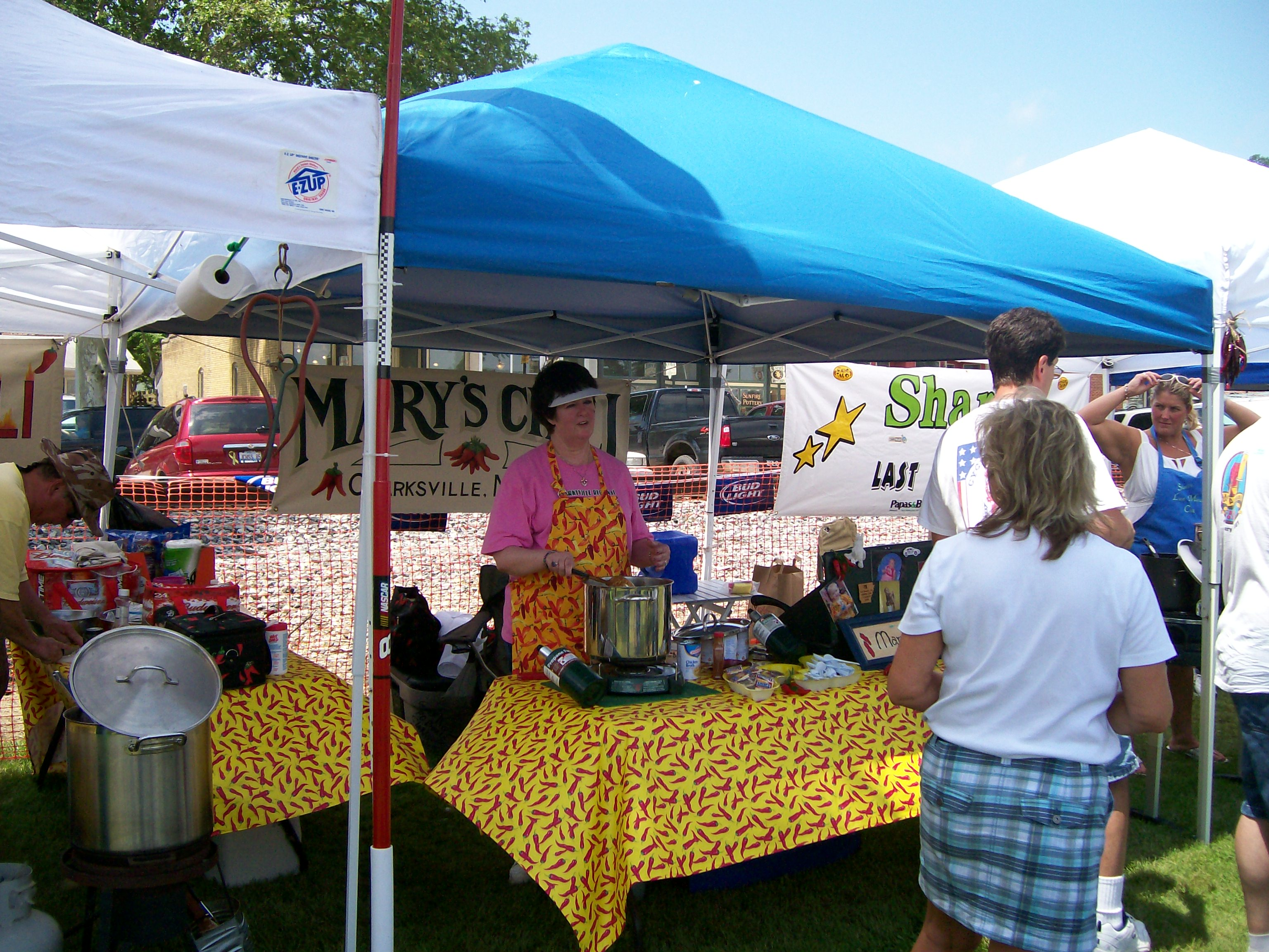 Image by Cathy Sippely, EAGLE 102 News